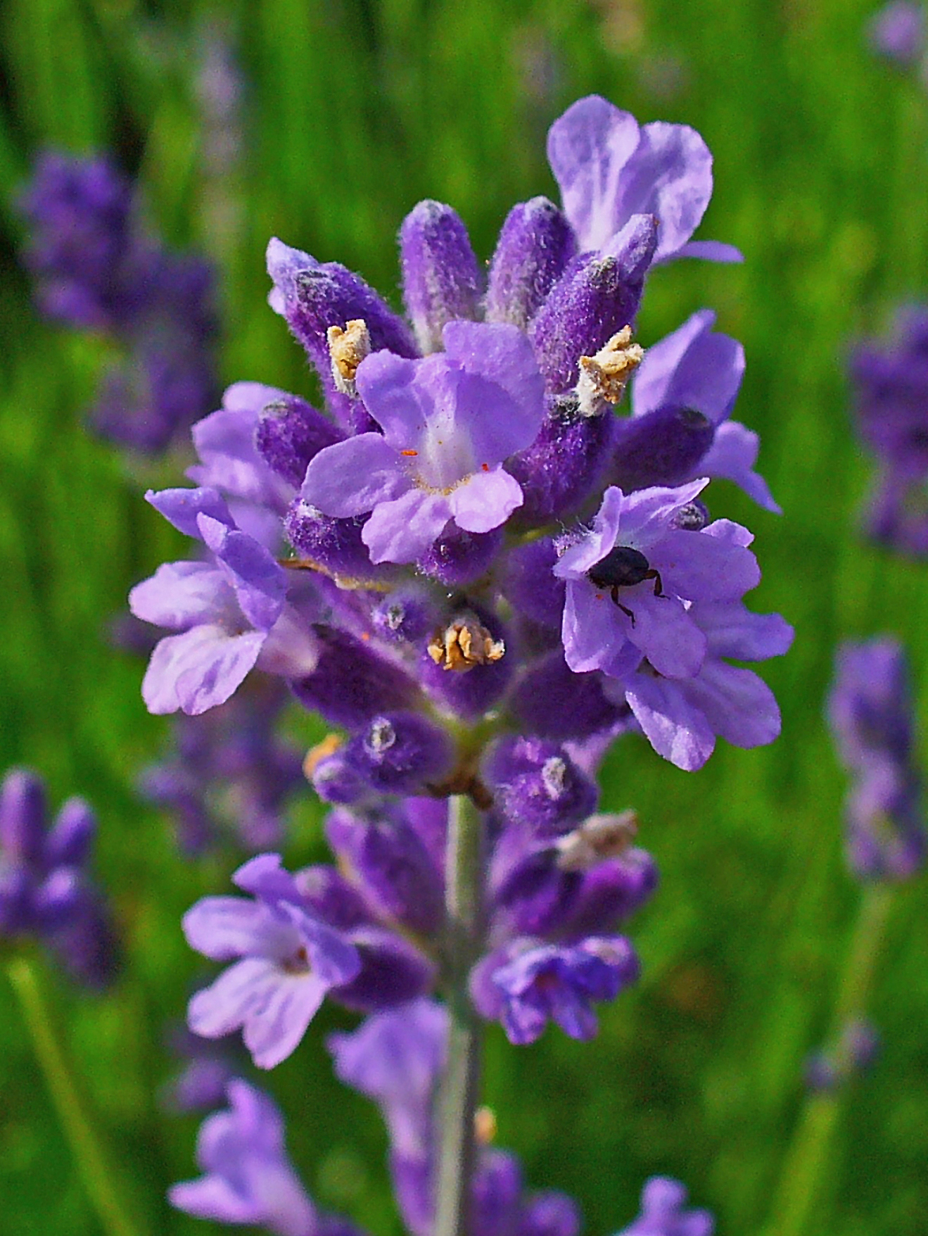 Lavandula angustifolia, Lamiaceae, Common Lavender, True Lavender, English Lavender, flowers; Karlsruhe, Deutschland. The fresh flowers are used in homeopathy as remedy: Lavandula (Lav-o.)